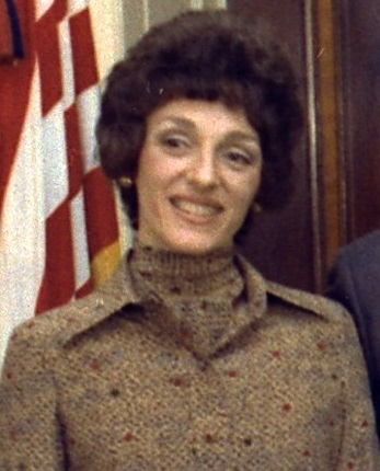 Joan Mondale (1977)